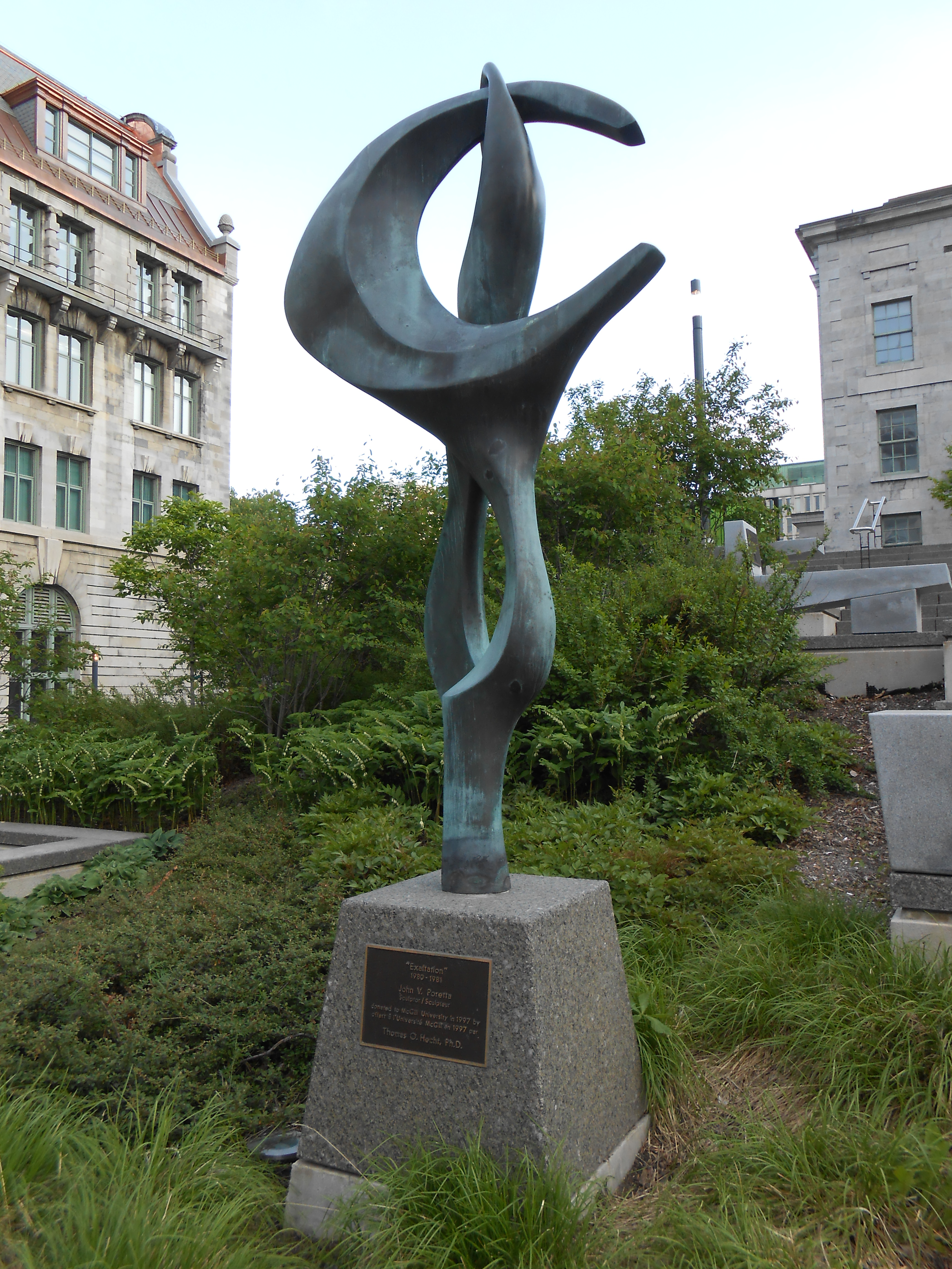 Exaltation (1980-1981), by John V. Poretta, Milton Gates, McGill University